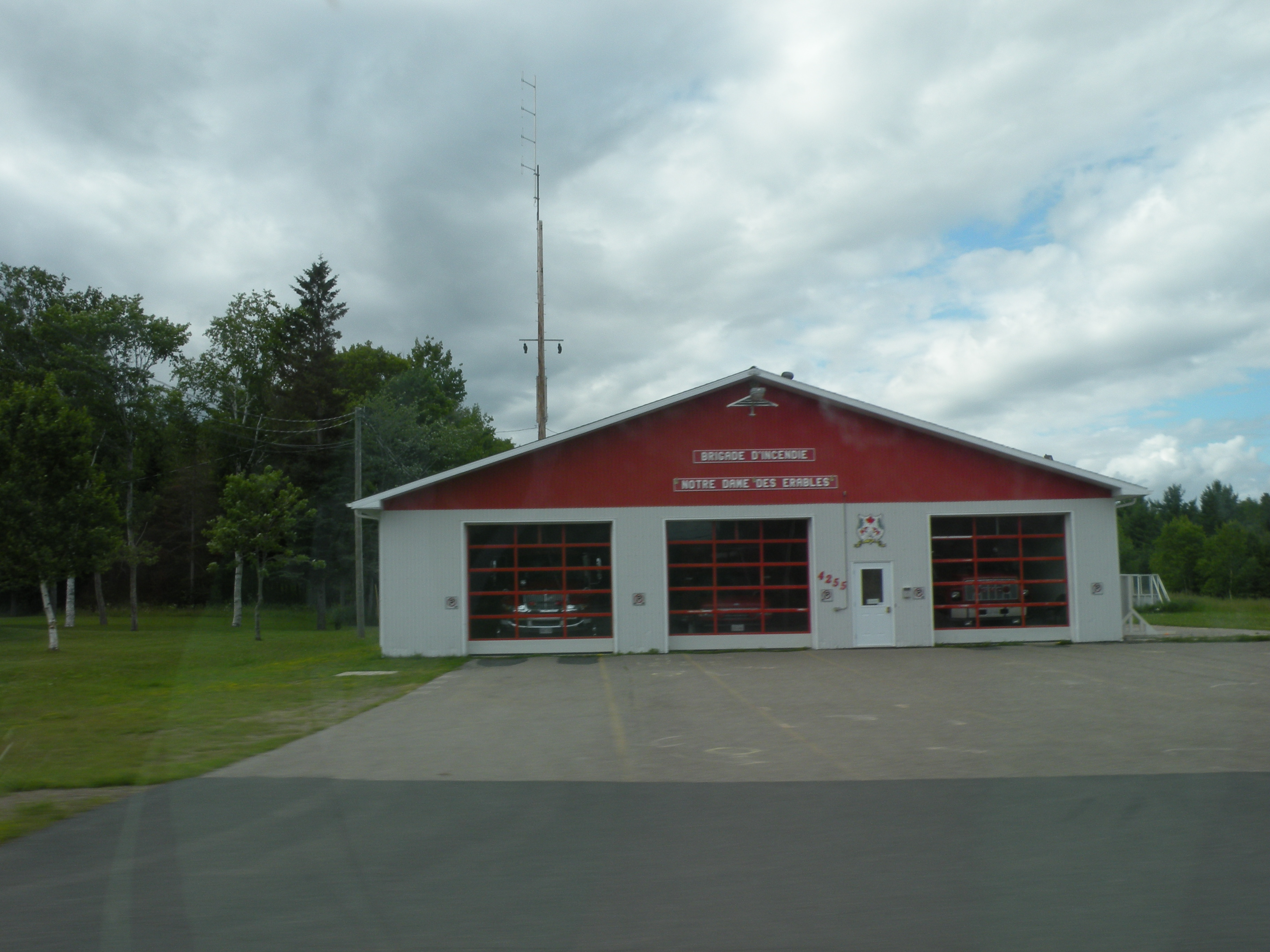 The fire brigade of Notre-Dame-des-Érables, New Brunswick, Canada.